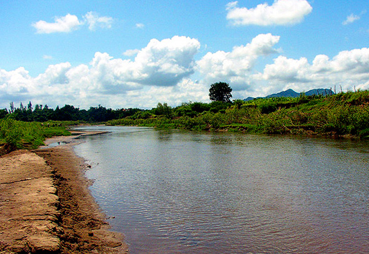 The Mocorito River